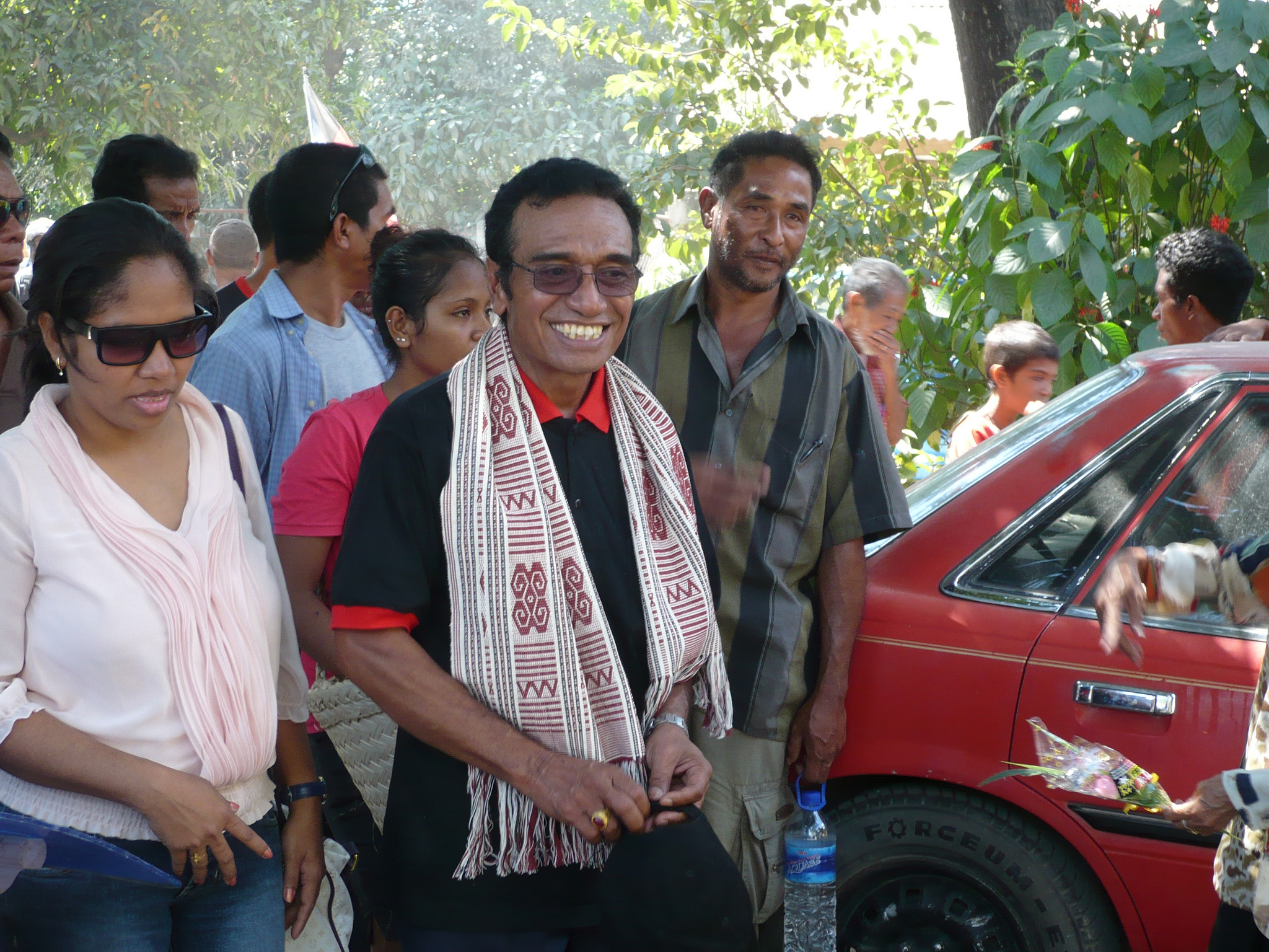 Francisco 'Lu Olo' Guterres during the FRETILIN campaign. Door-to-Door campaign handing out flowers to citizens.